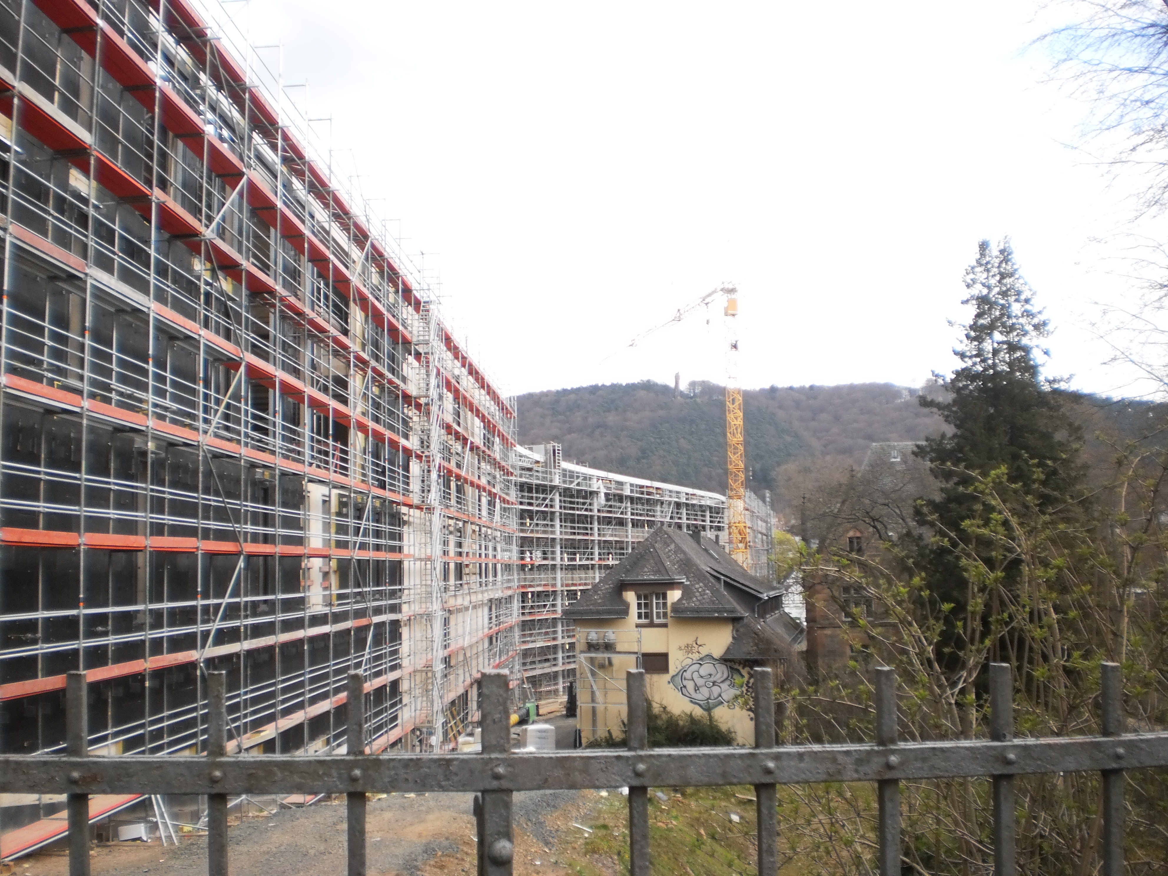 Construction works at the new library building of University Marburg (Zentrale Universitätsbibliothek - ZUB, in Marburg). In the right is the old botanical garden of Marburg. Photo taken from street Pilgrimstein in spring 2016. One year later view the ↓second photo of the building in 2017↓.